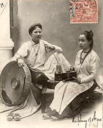 Two Vietnamese woman dress in ao ngu than